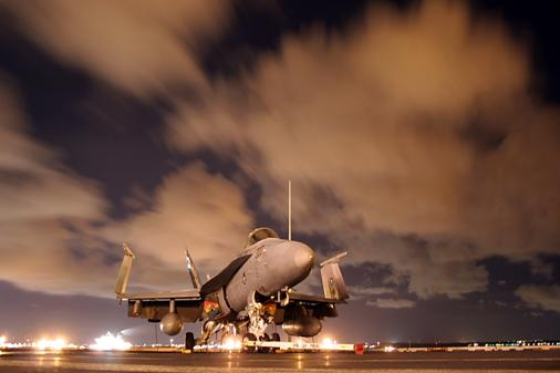 A F/A-18C Hornet from Strike Fighter Squadron 113 on the deck of the USS Ronald Reagan (CVN-76)